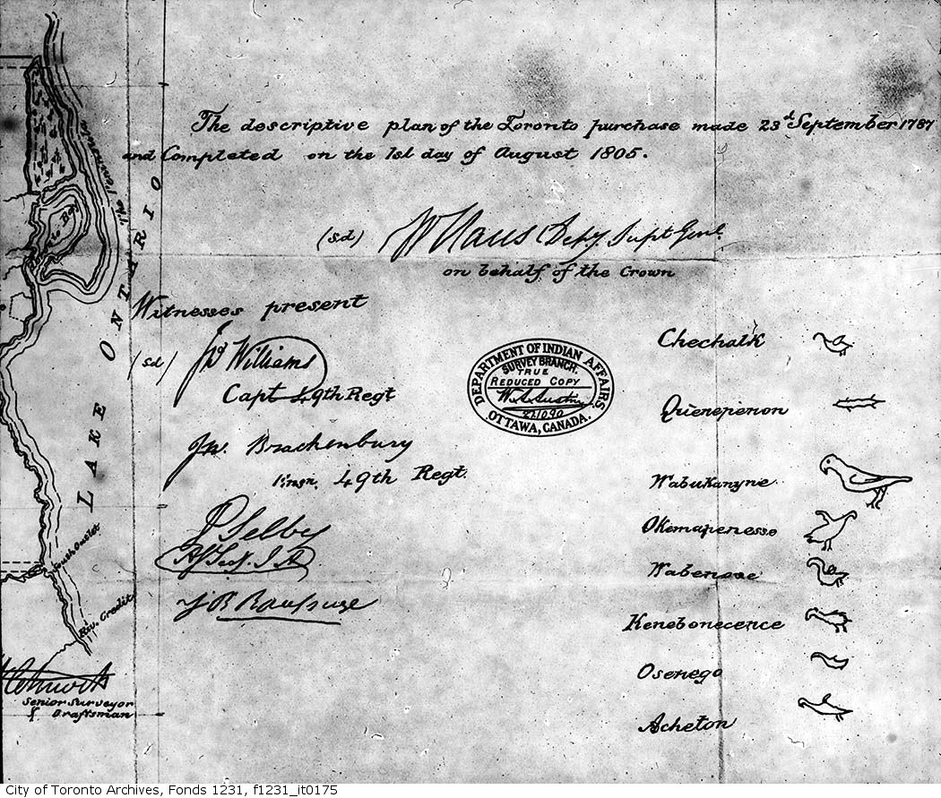 Signatures of parties ratifying the Toronto Purchase, from 1805.